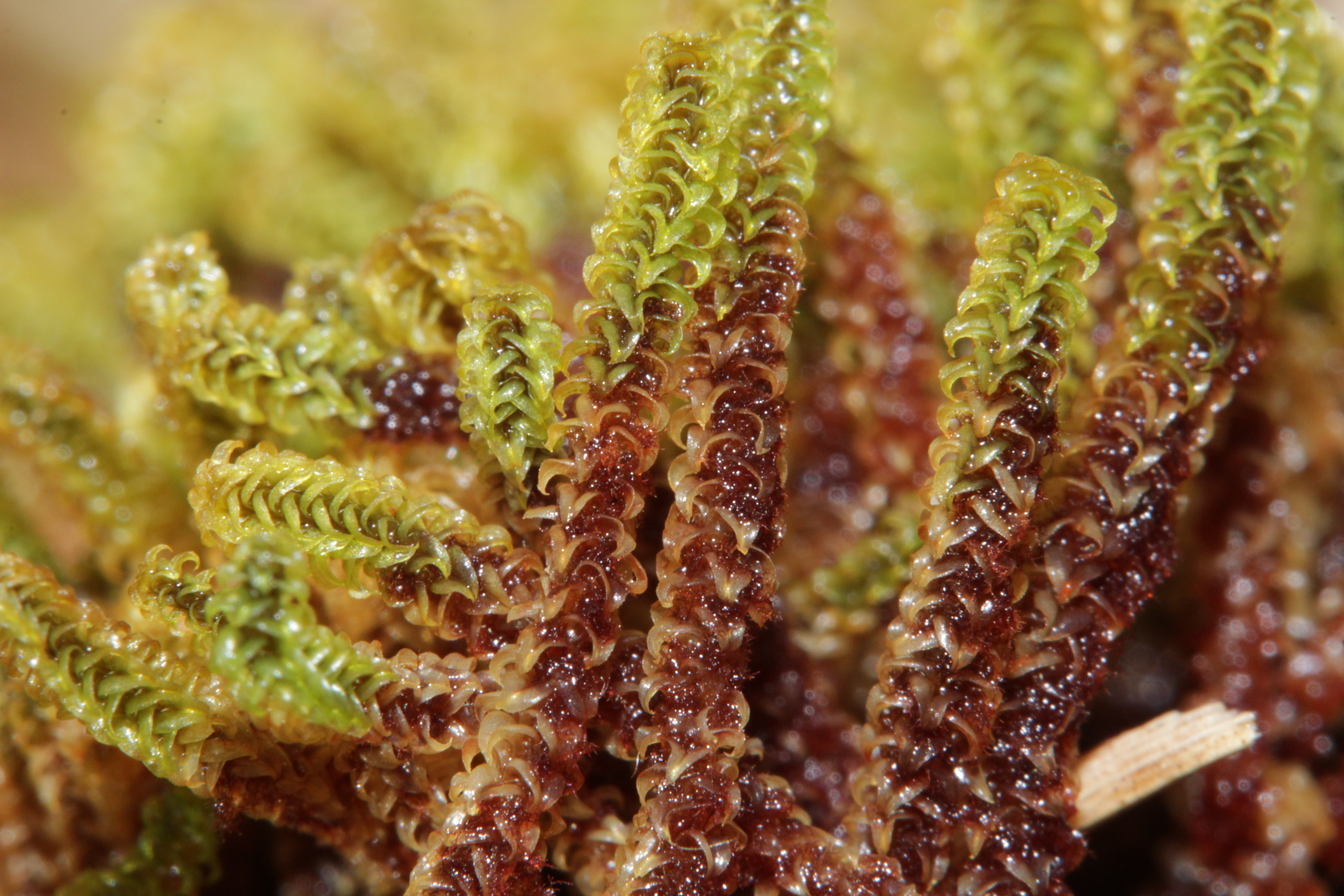 Paludella squarrosa